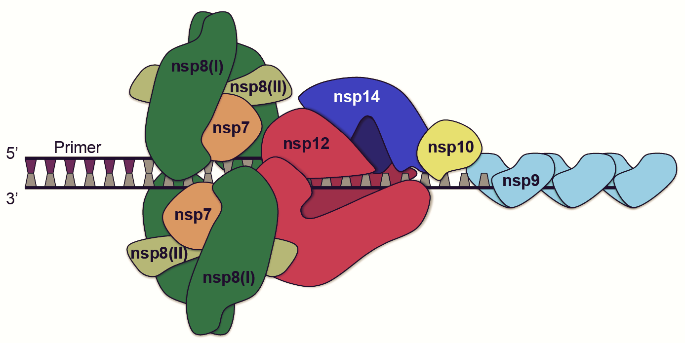 Model of the replicase-transcriptase complex of a coronavirus. Illustration shows how the RNA sliding clamp for processivity and primase domain for priming (nsp7 and nsp8 – green/orange) could assemble on viral dsRNA and interact with the putative multi-subunit coronavirus polymerase complex consisting of RdRp for replication (nsp12 – red), ExoN for proofreading (nsp14 – dark blue), and ExoN cofactor (nsp10 – yellow). To initiate replication-transcription there is a short (∼6 n.t.) primer generated by the non-canonical RdRp activity of nsp8 (I and II). Binding of ssRNA by RNA binding proteins (nsp9 – light blue) to avoid secondary structure is also shown. A helicase to unwind RNA (nsp13) is not shown downstream.